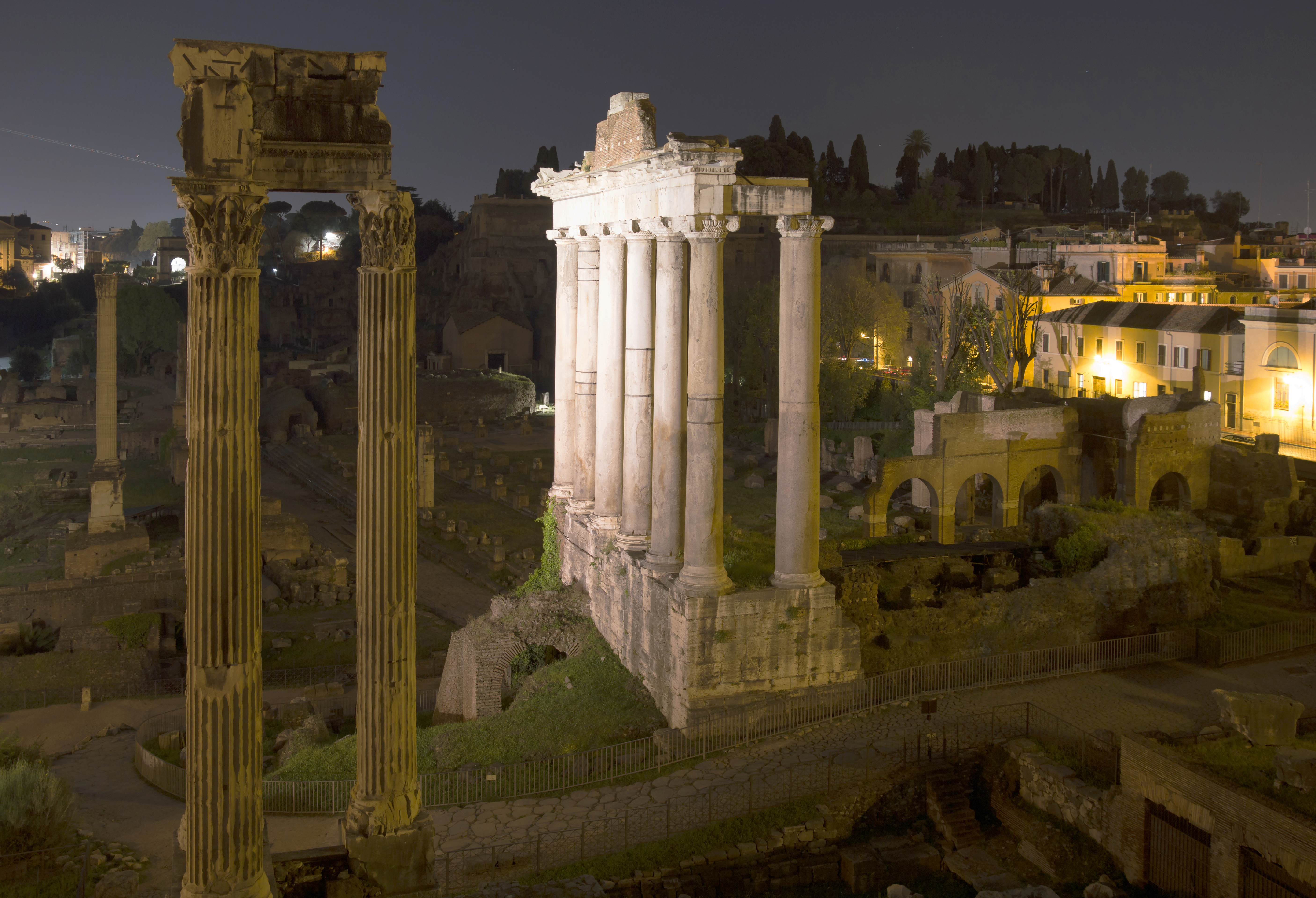 Temple of Saturn in Fori Imperiali at Night